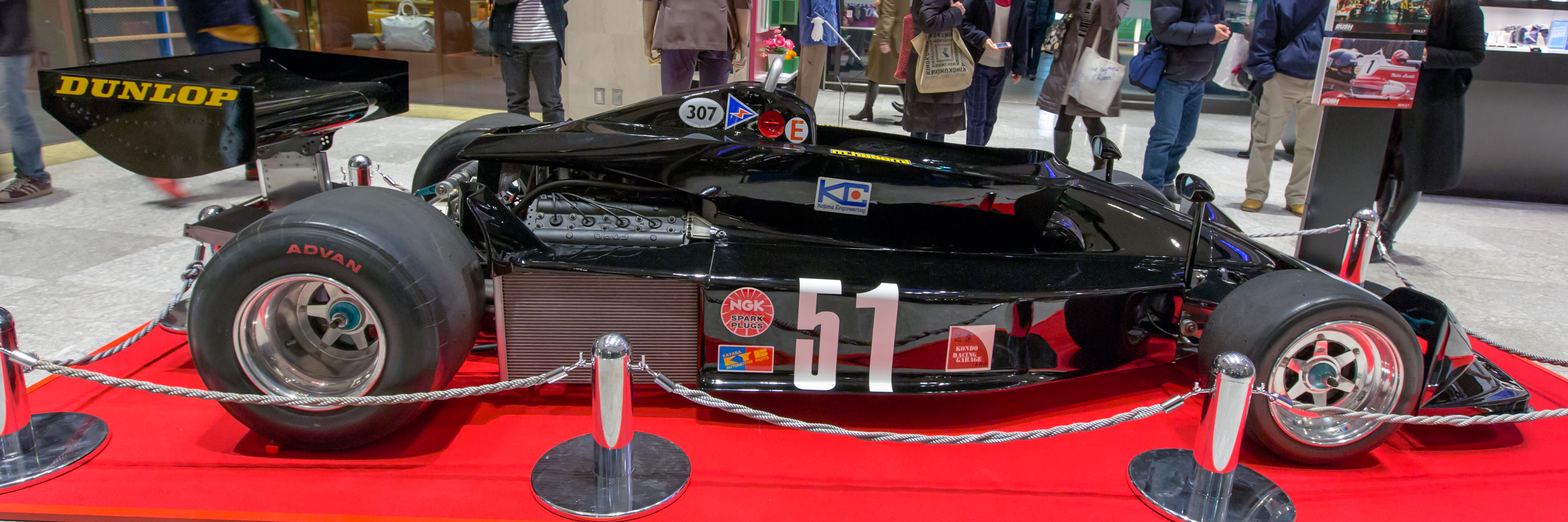 Kojima KE007